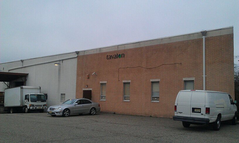 Tavalon Tea Headquarters Wood-Ridge, NJ